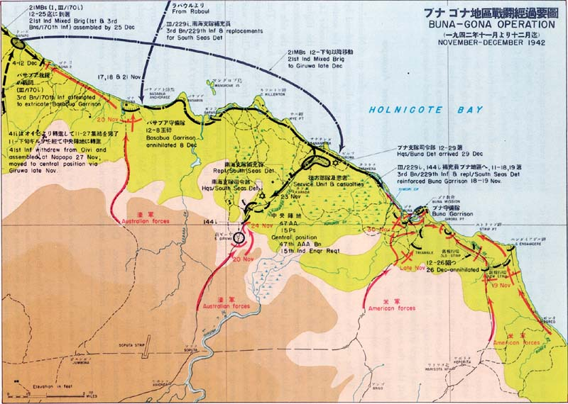 Japanese Buna-Gona Operation, November-December 1942